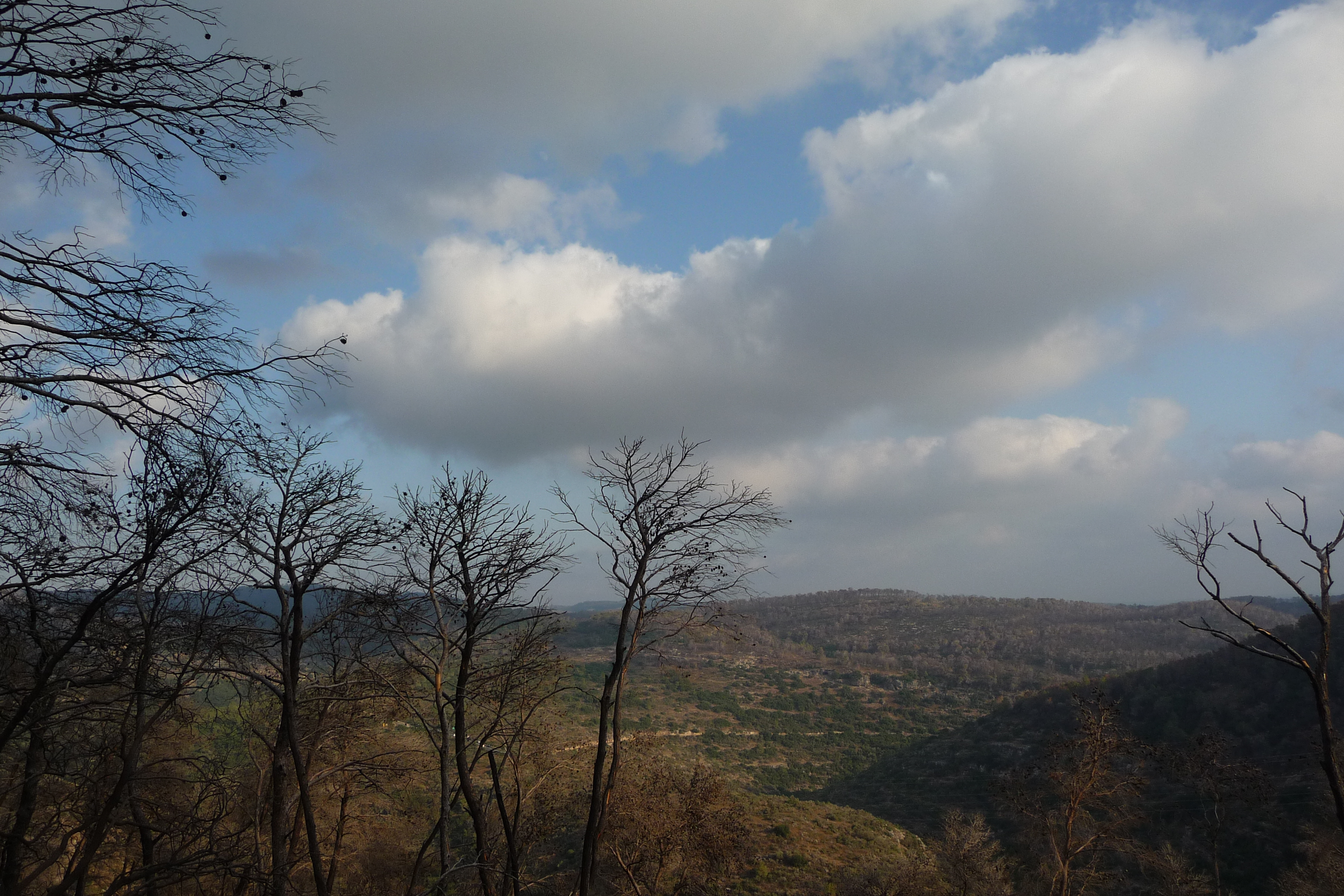 Mount Carmel